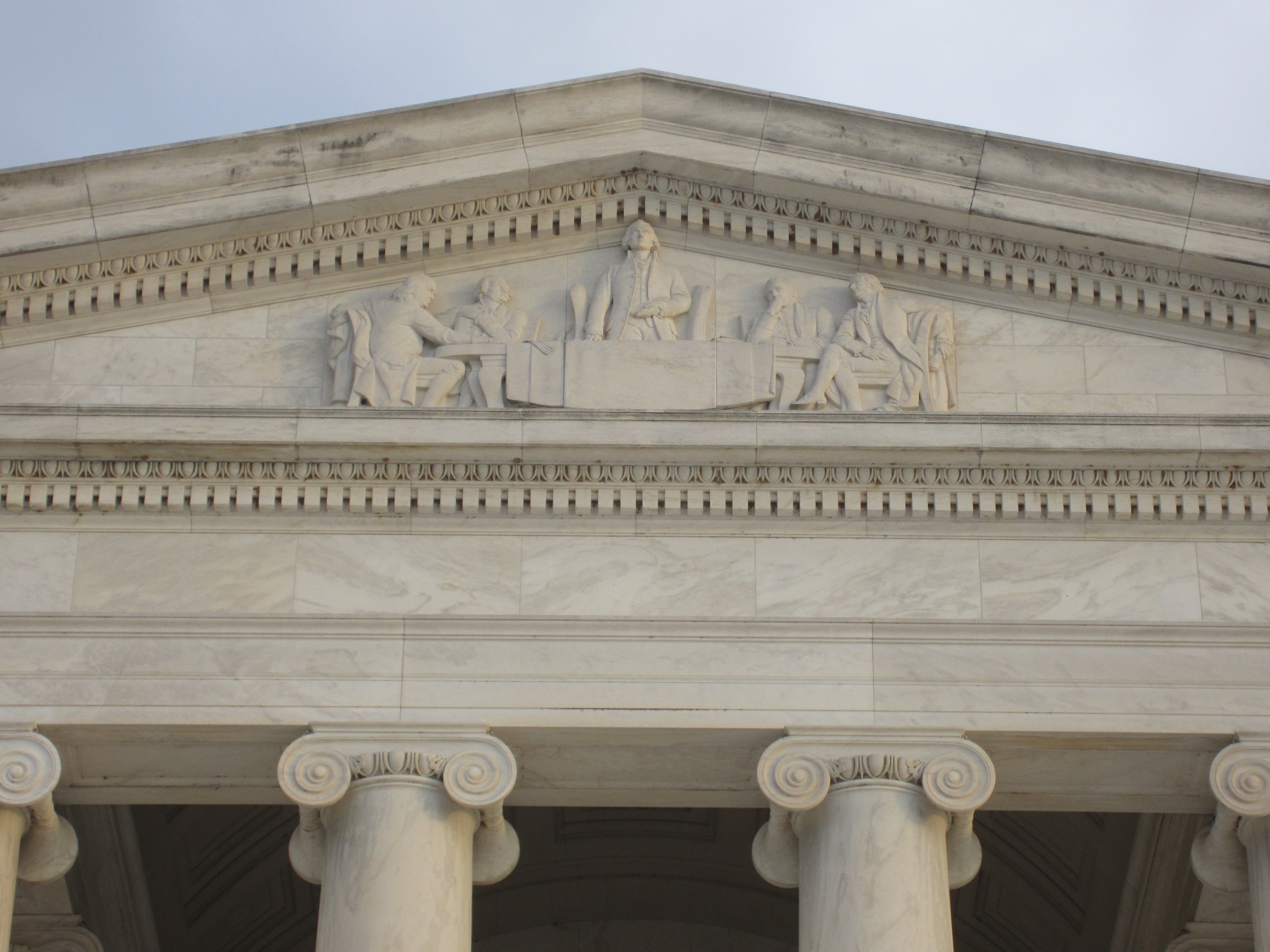 Jefferson Memorial in Washington, D.C. in 2010